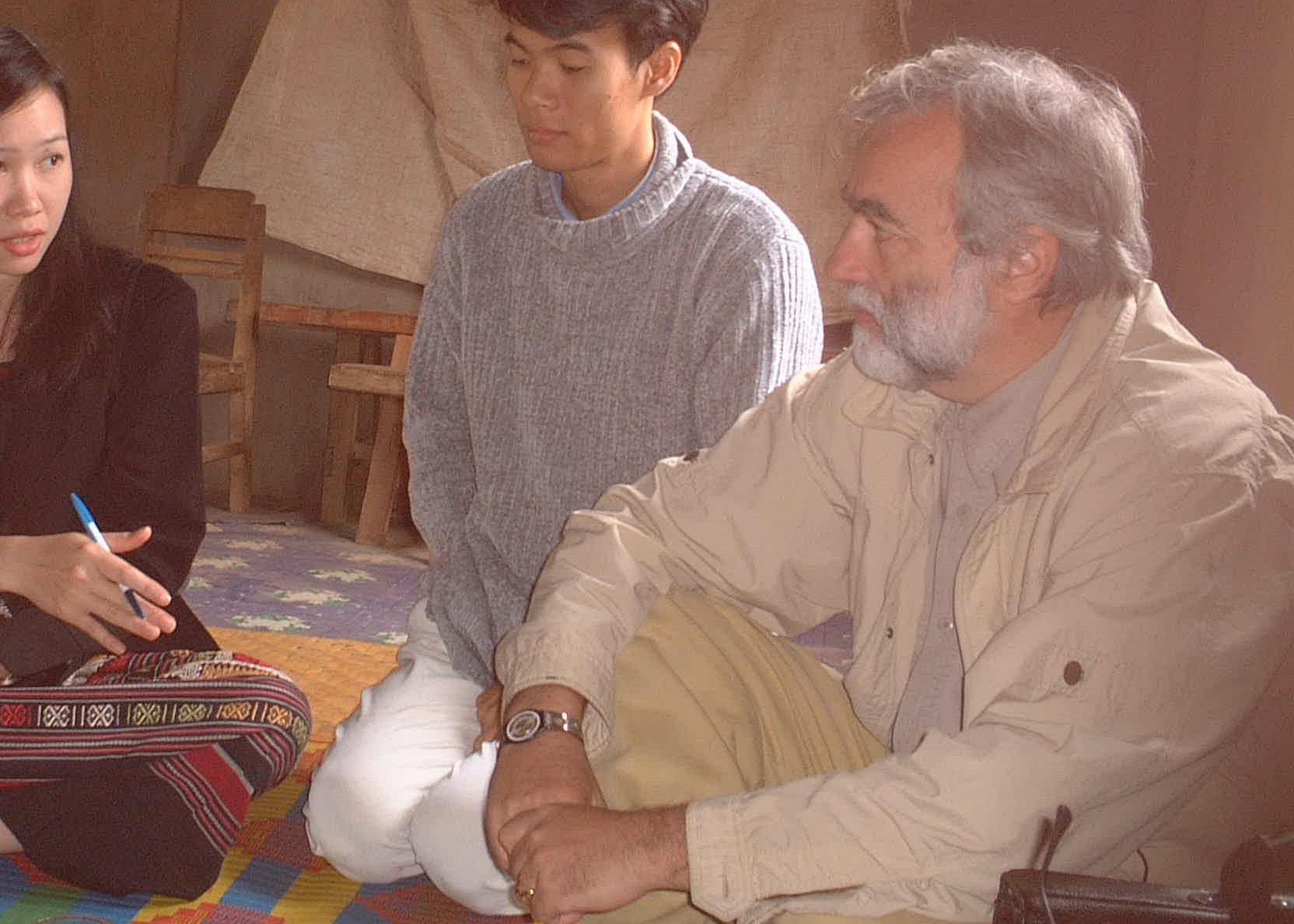 Jean Paul Gonzalez (right side)